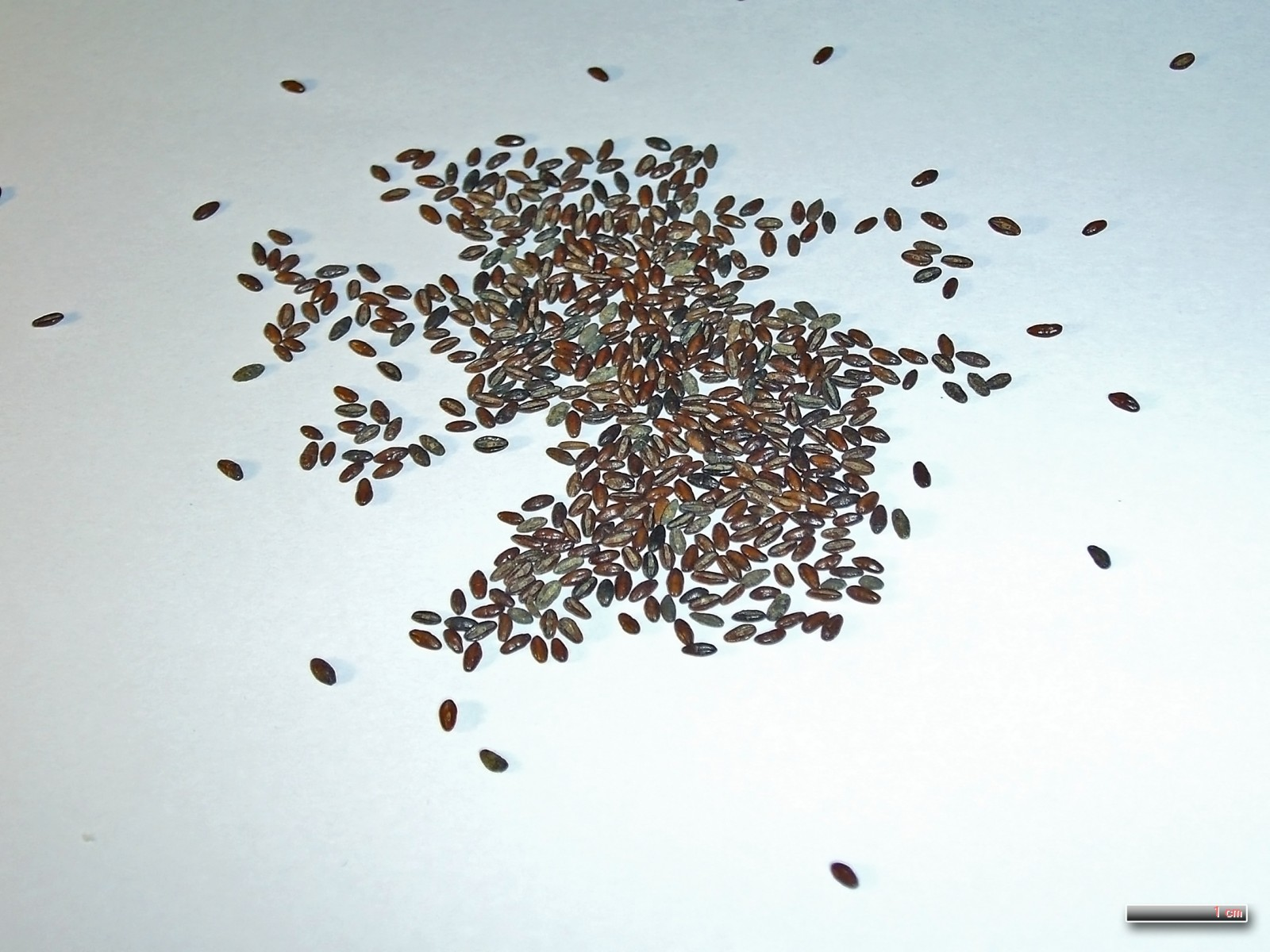 dried Plantago Psyllium - P. afra Seeds